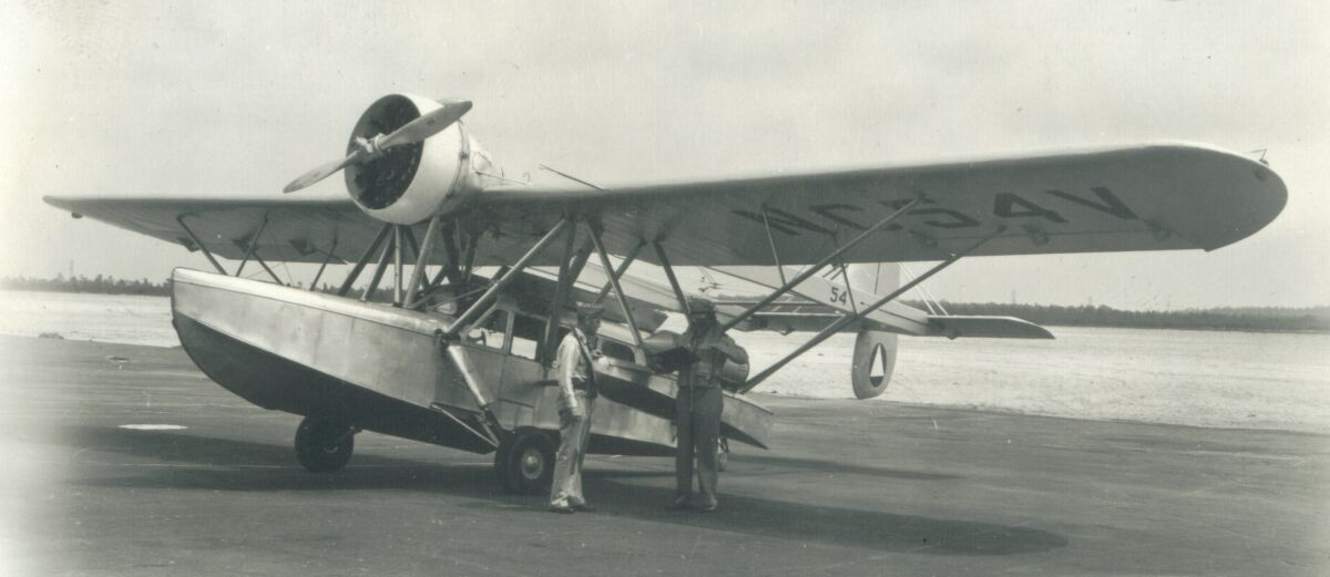 This historical image features a Civil Air Patrol Sikorsky S-39 (civil registry NC54V) at Suffolk Airport during World War II. It was primarily used for search-and-rescue activities, and occasionally for coastal patrol and observation duties. CAP operated Coastal Patrol Base 17 out of the airport between July 1942 and August 1943.